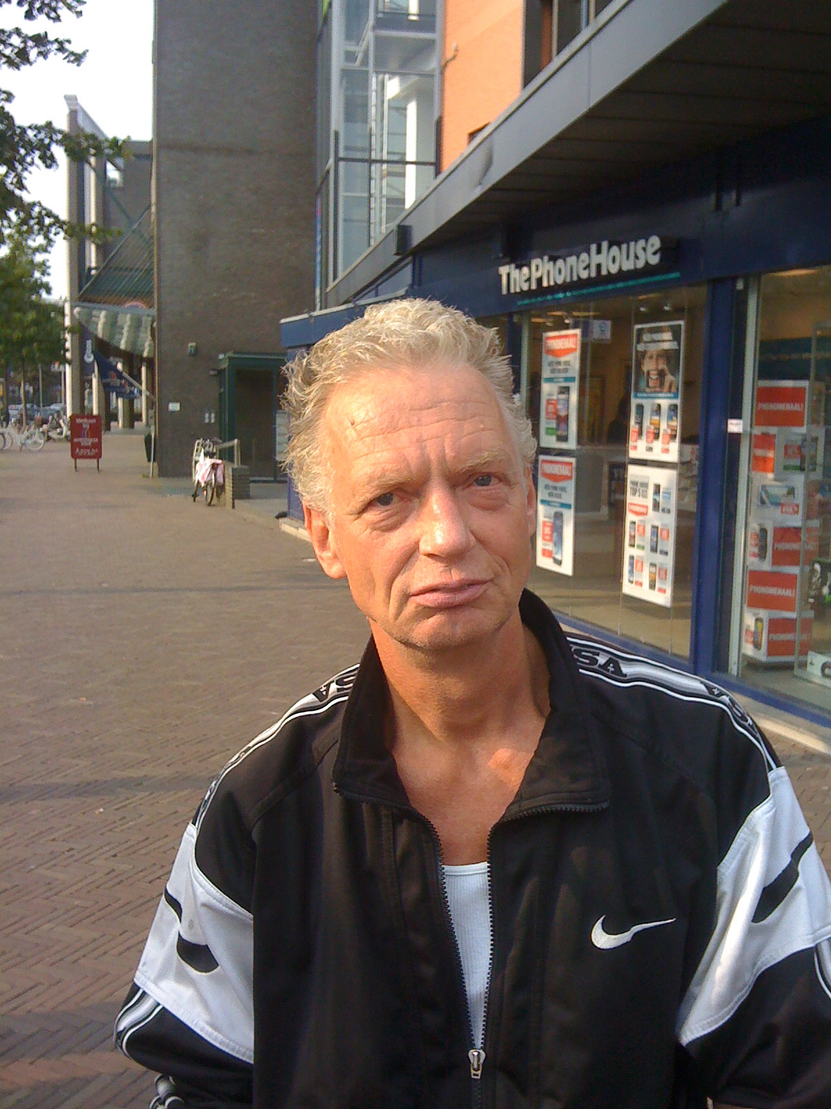 Marien Jongewaard in Amersfoort